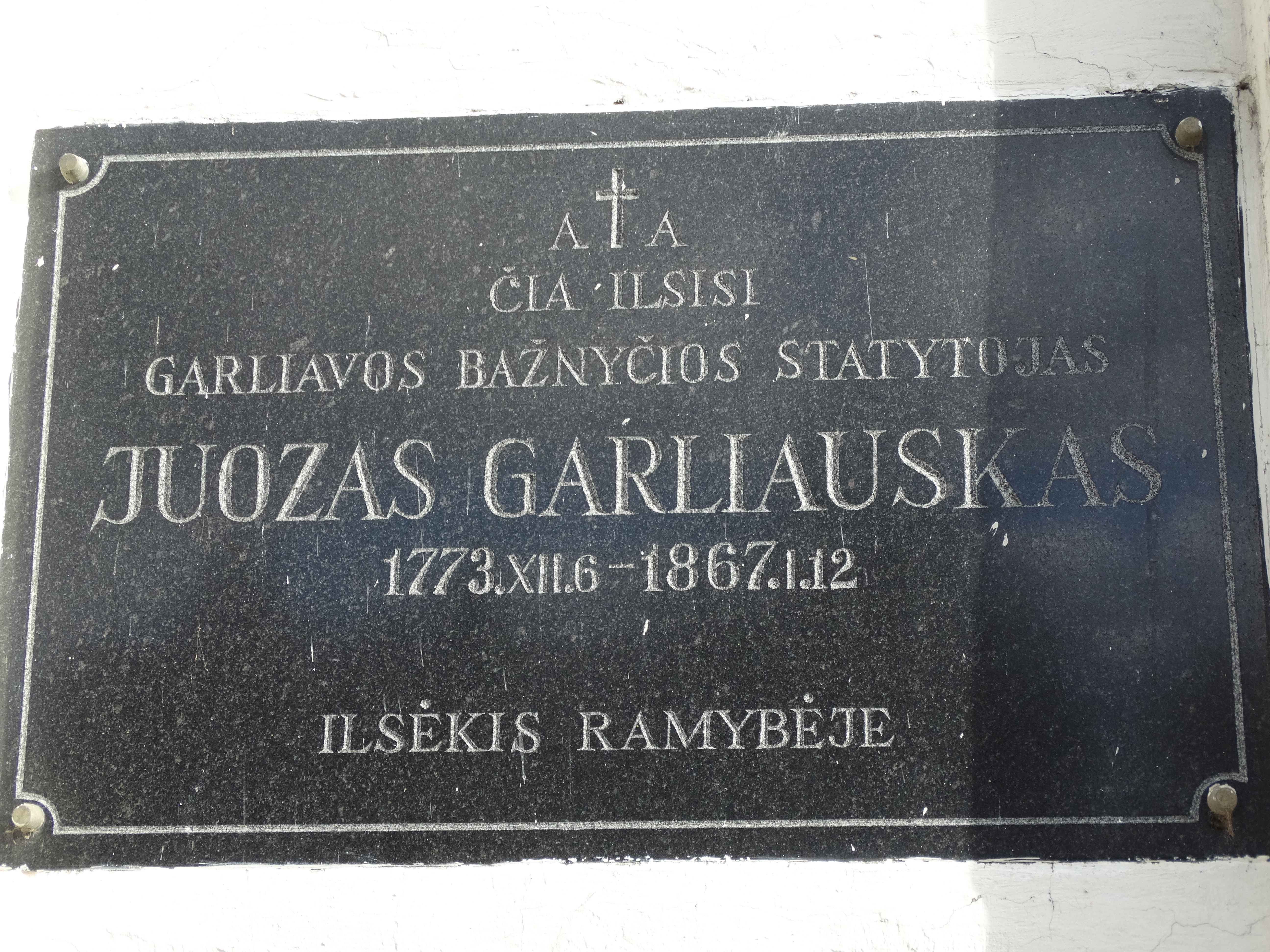 Memorial plaque to Juozas Garliauskas (Józef Godlewski), St. Trinity church, Garliava, Lithuania